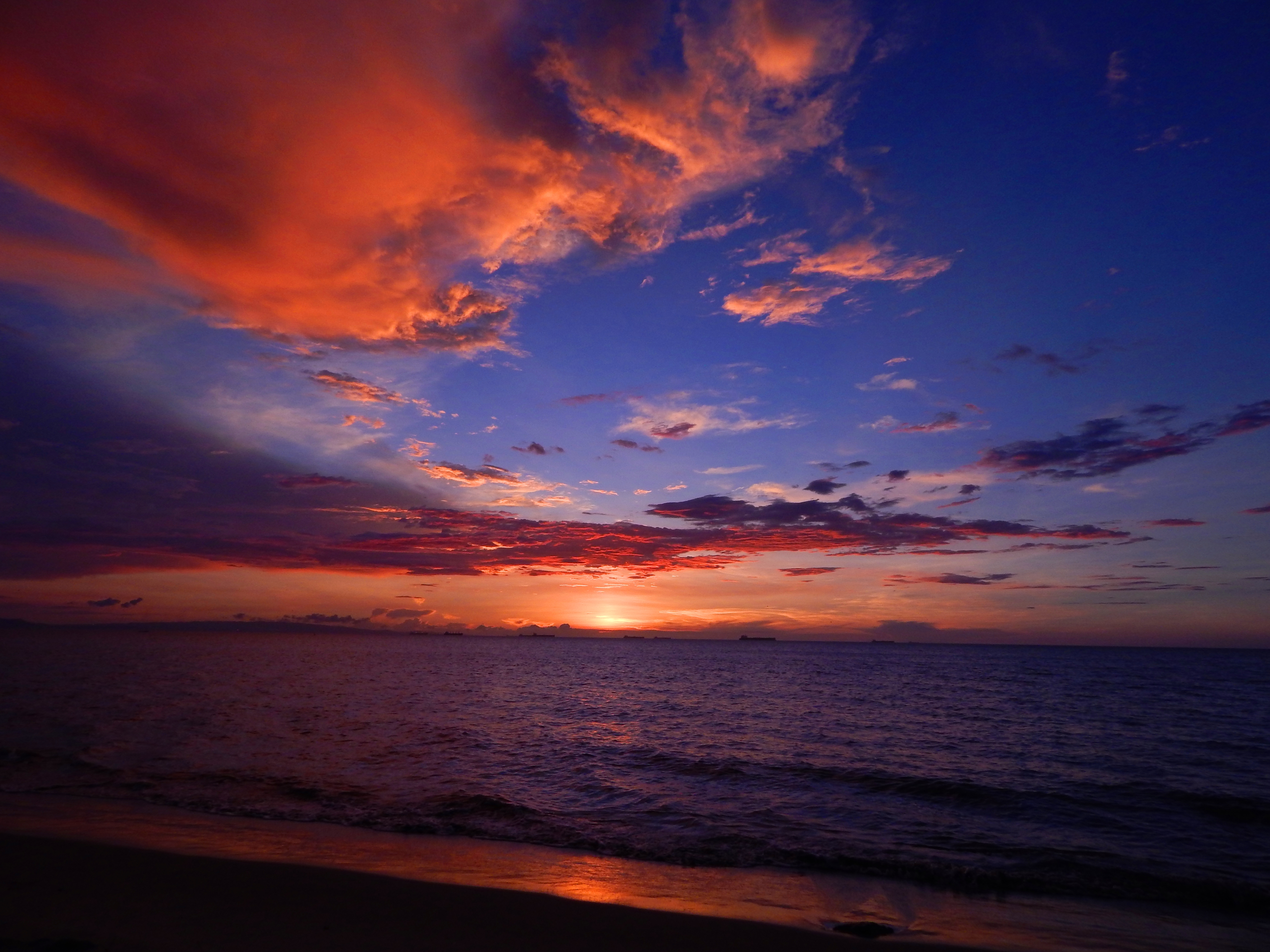 Mansa Beach, Lecheria, Anzoátegui state, Venezuela